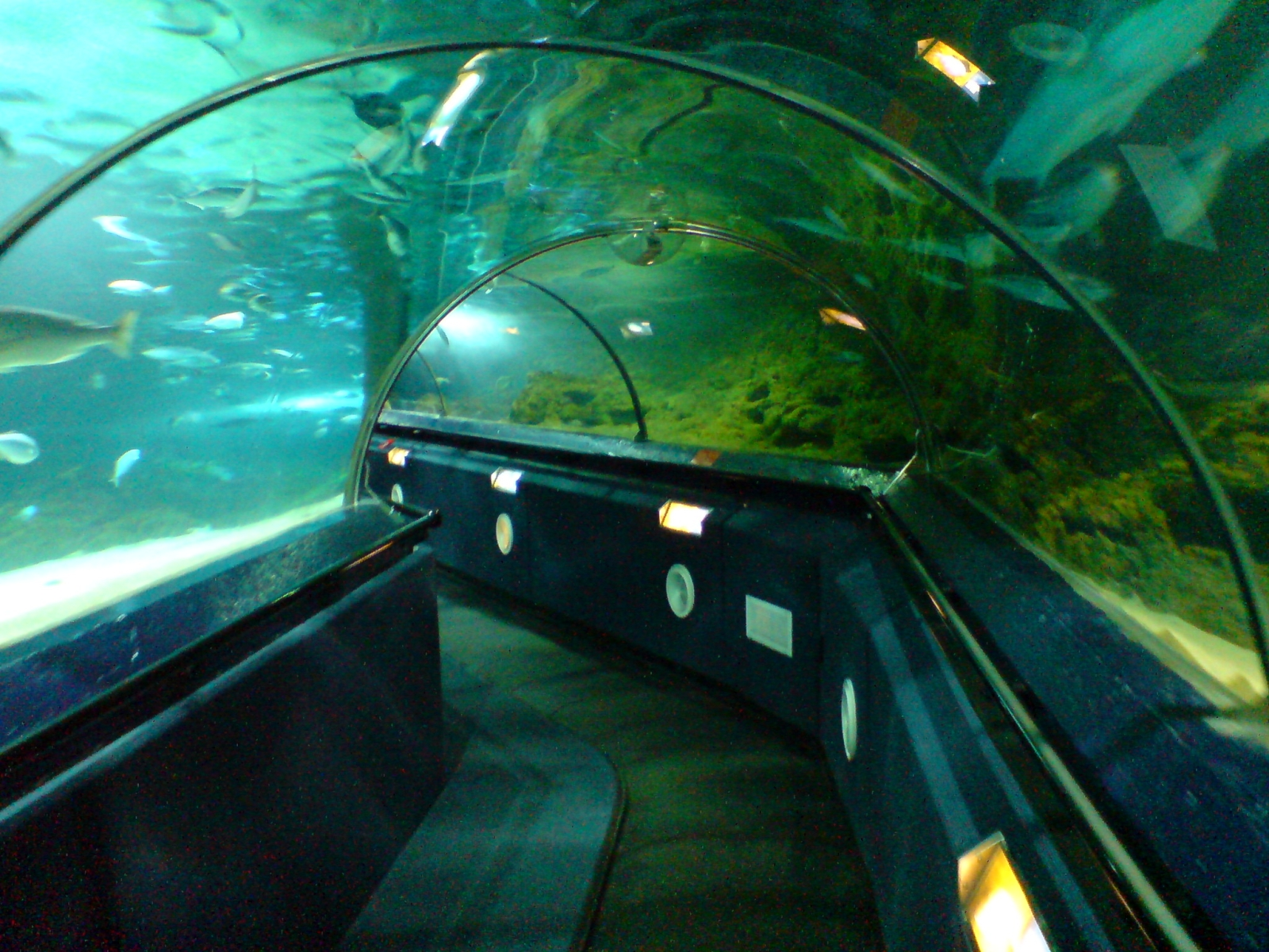 The tunnels at Kelly Tarlton's Underwater World in Auckland City, New Zealand. The tunnels were apparently the first worldwide to use curved panels to create viewing tunnels instead of the previous method of viewing windows at the sides of the tanks.